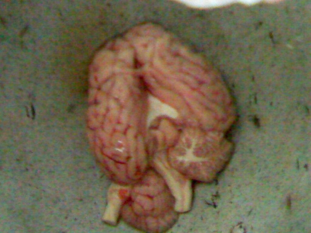 Brain of a goat prior to cooking